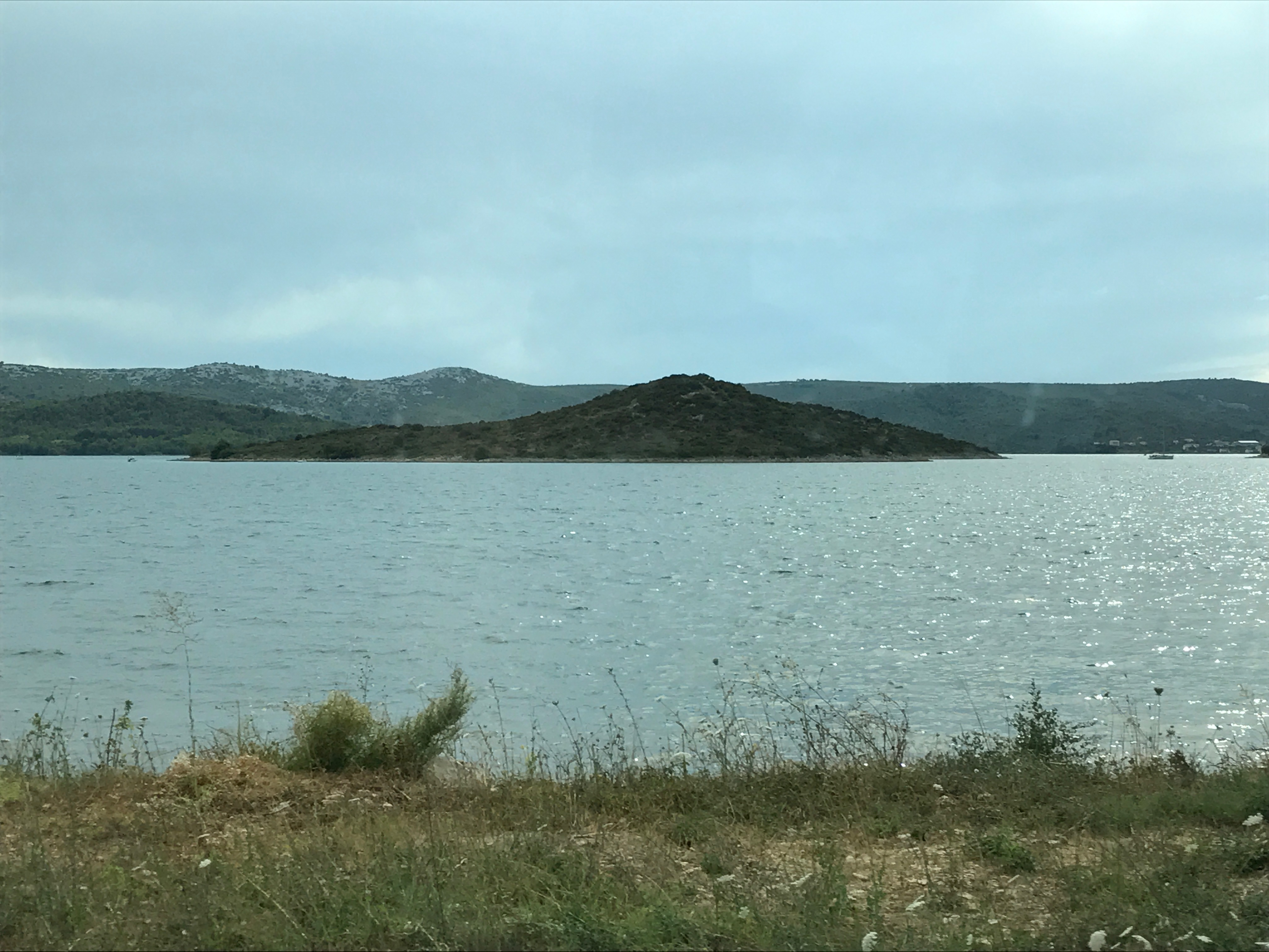 Galešnjak seen from the mainland of Croatia.